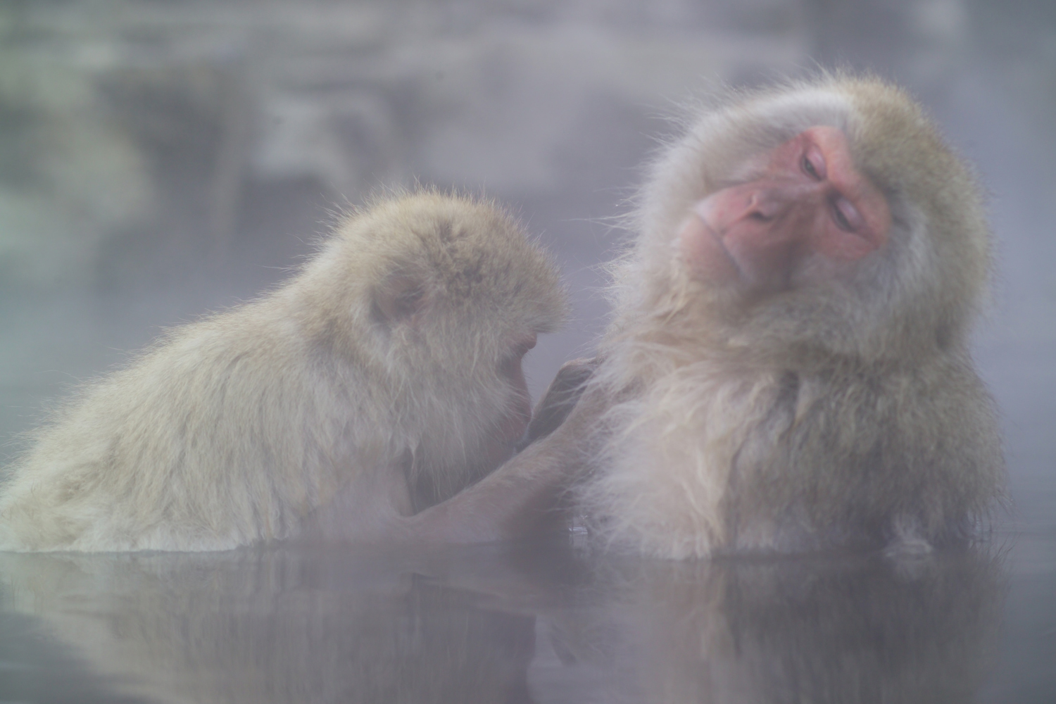 Japanese Macaque